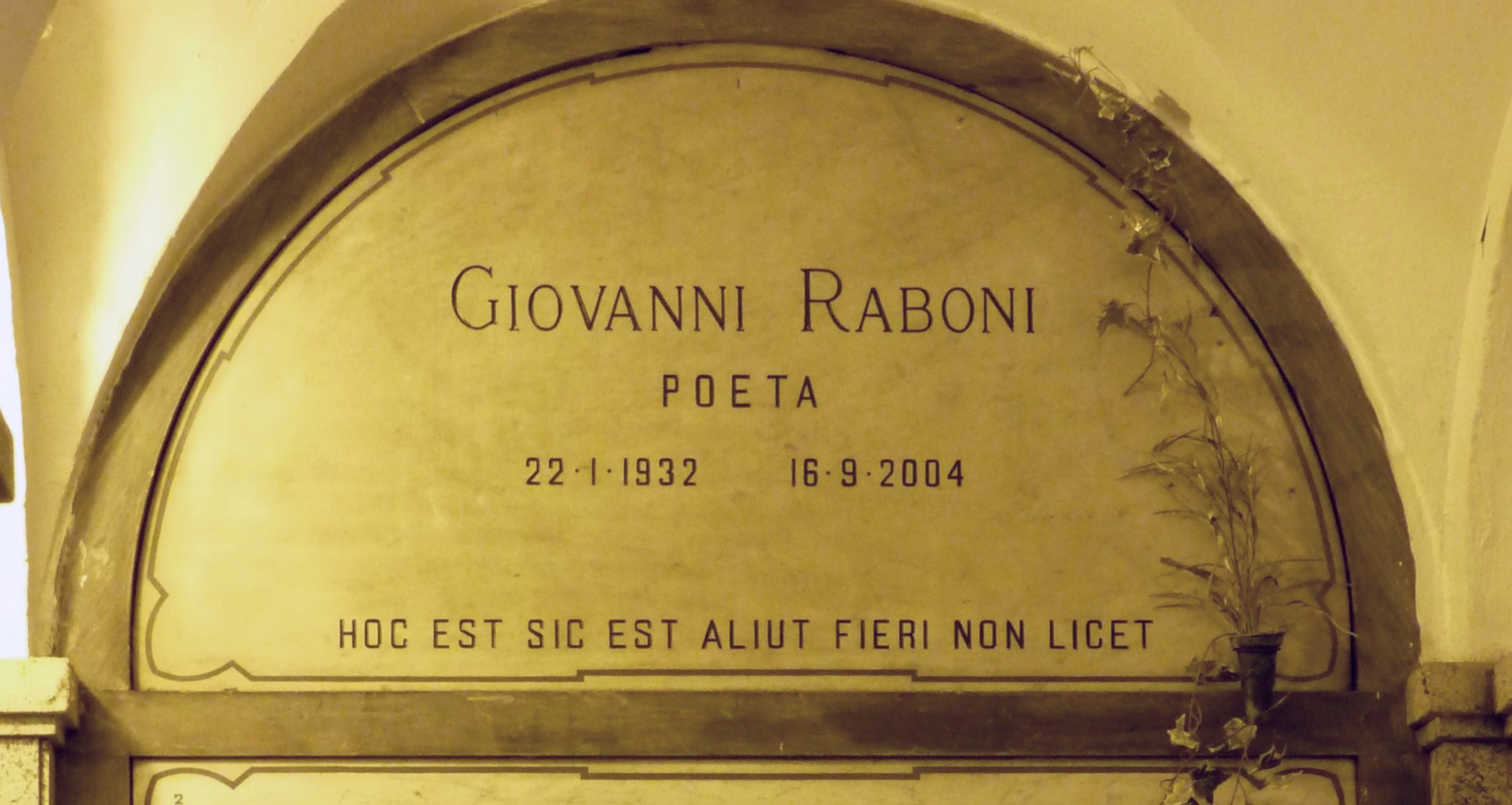 The grave of Italian poet Giovanni Raboni at the Monumental Cemetery of Milan, Italy.